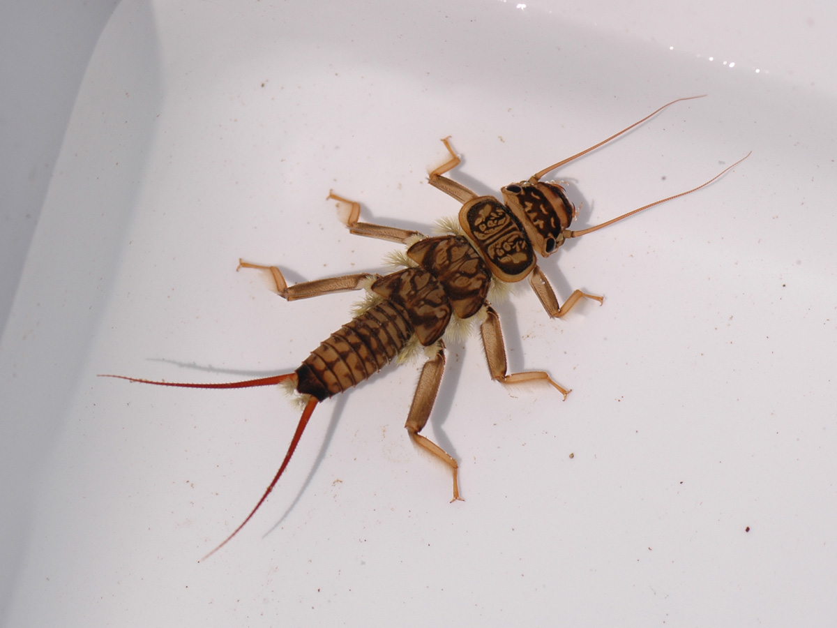 Plecoptera